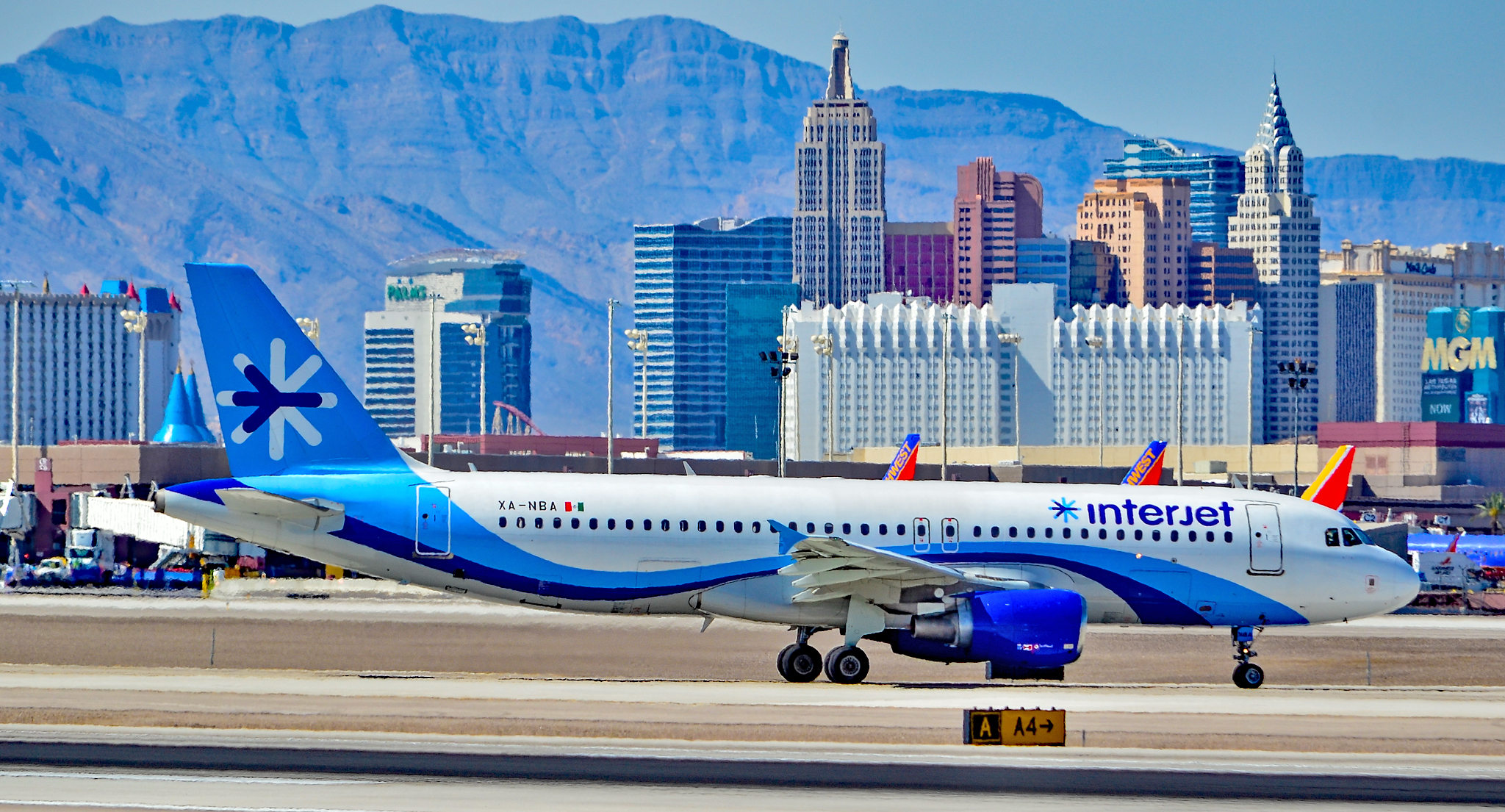 Interjet Airbus A320-214 (XA-NBA) at Las Vegas McCarran International Airport